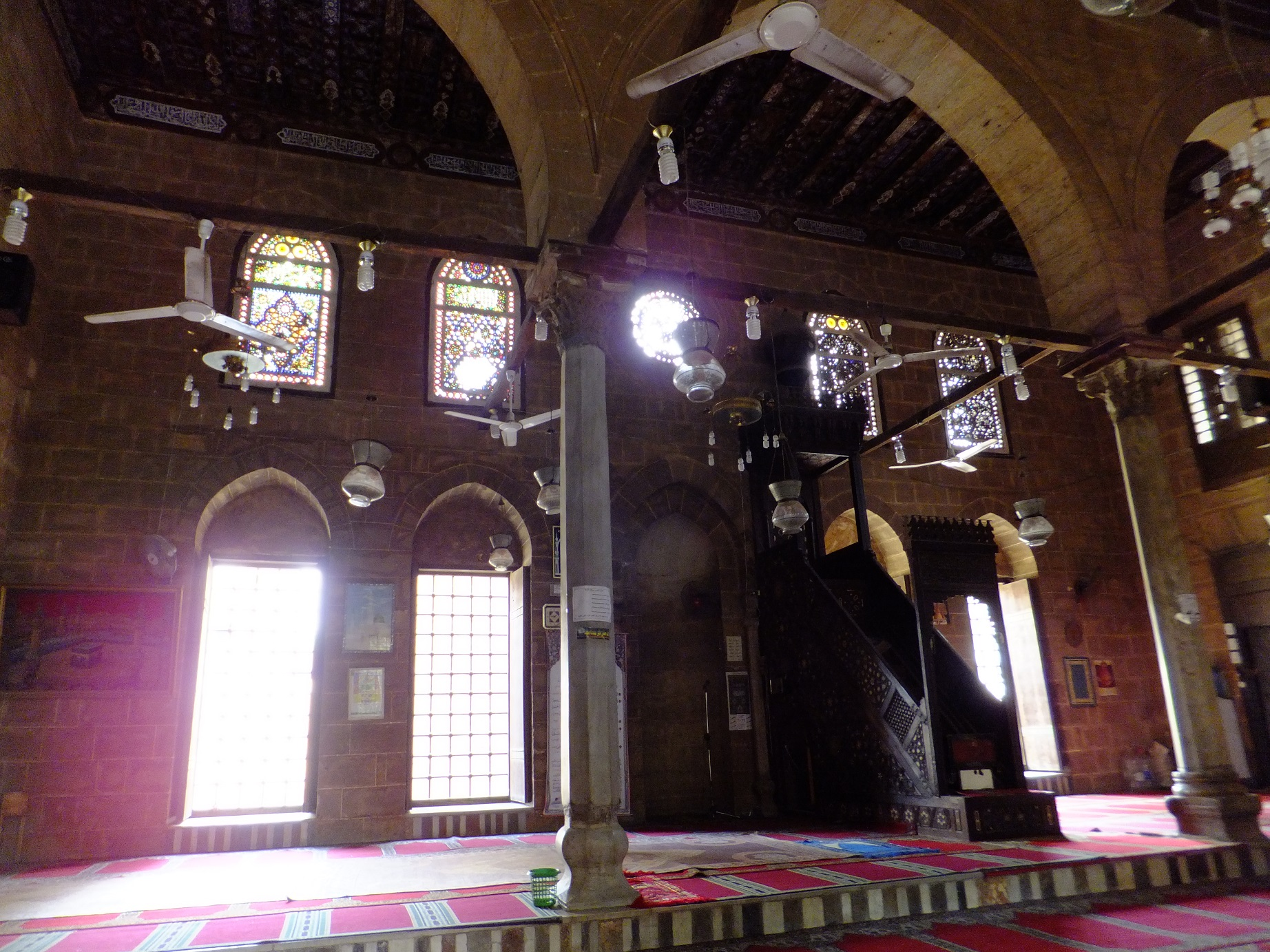 Mosque interior at the Complex of Barsbay in the Northern Cemetery, Cairo.